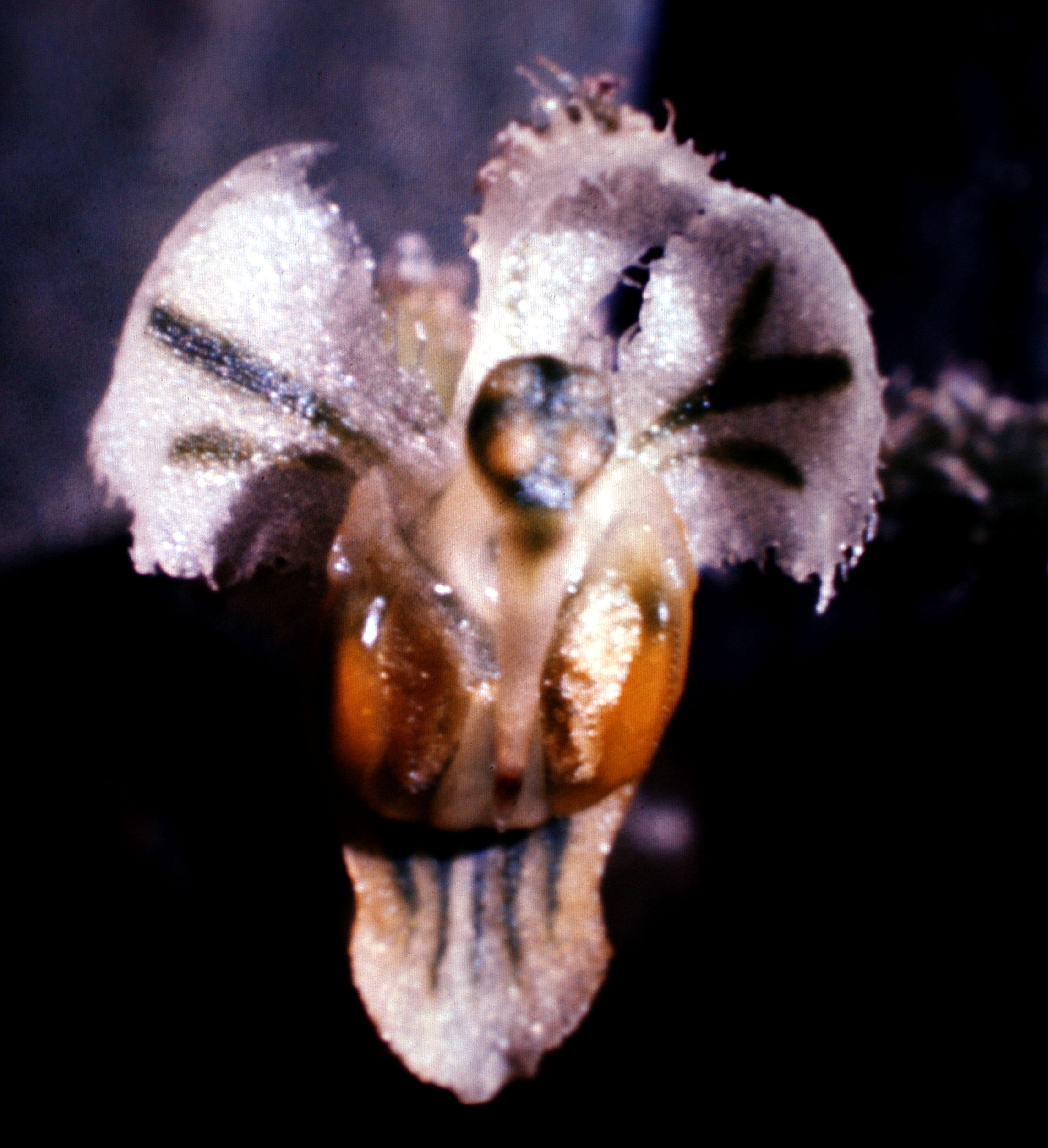 Ornithocephalus ciliatus (accepted name) Ornithocephalus kruegeri (syn.) Found and photographed in Suriname.